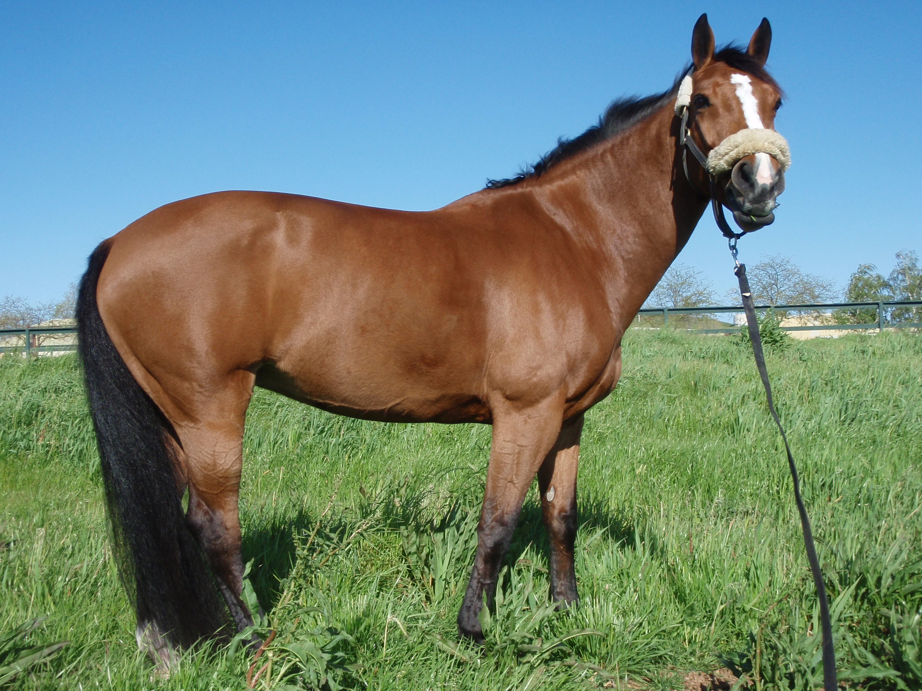 A happy horse hanging out between dressage tests in California, munching grass and enjoying the sunshine... So much better than the rain and sleet we left behind back in BC! (taken at Rancho Murieta at the Golden State Dressage Festival)